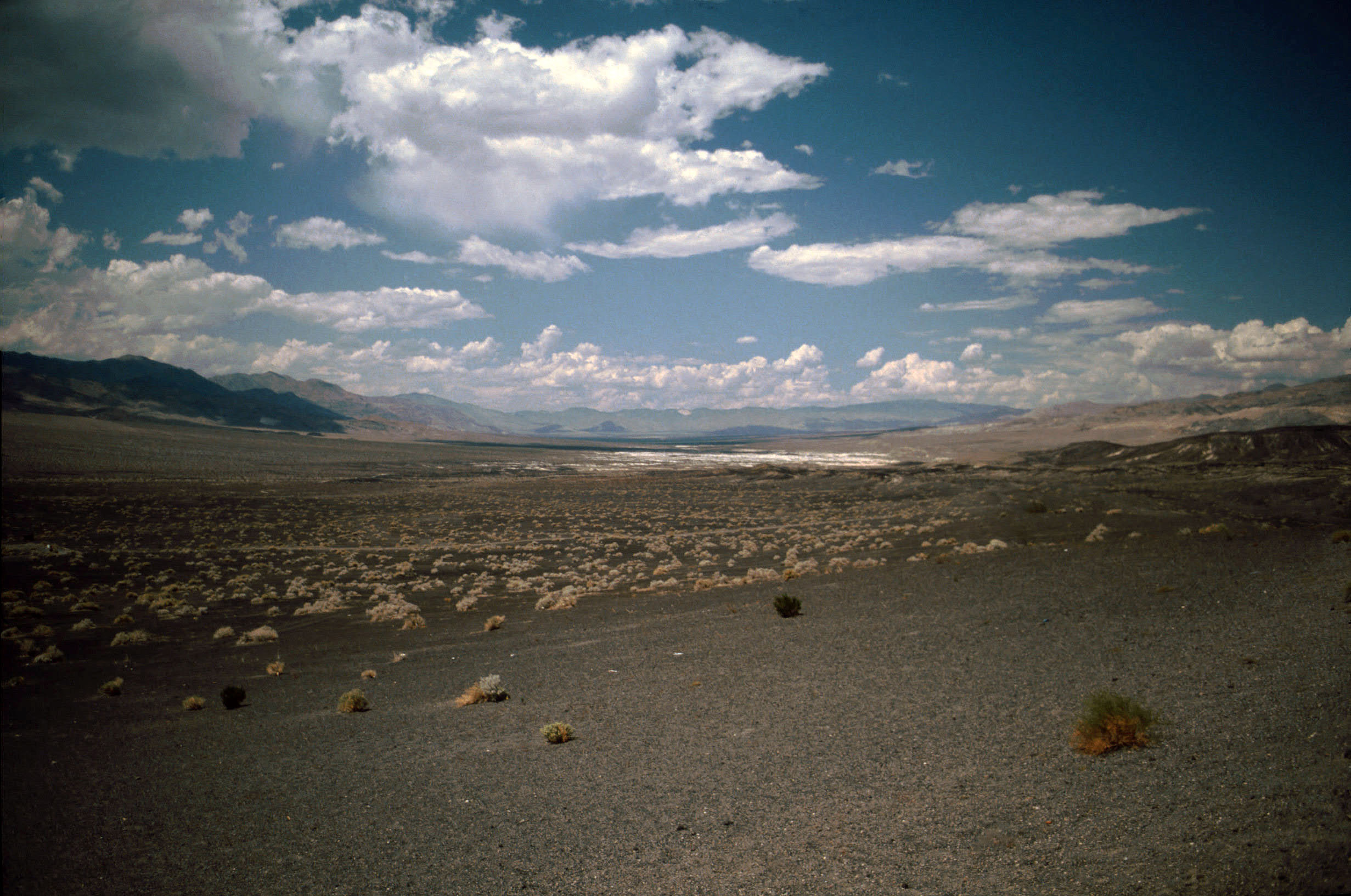 Death Valley,Cinder field